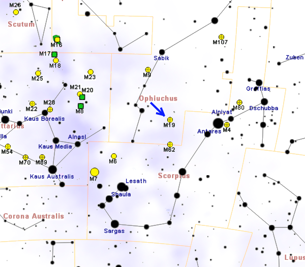 map of M19